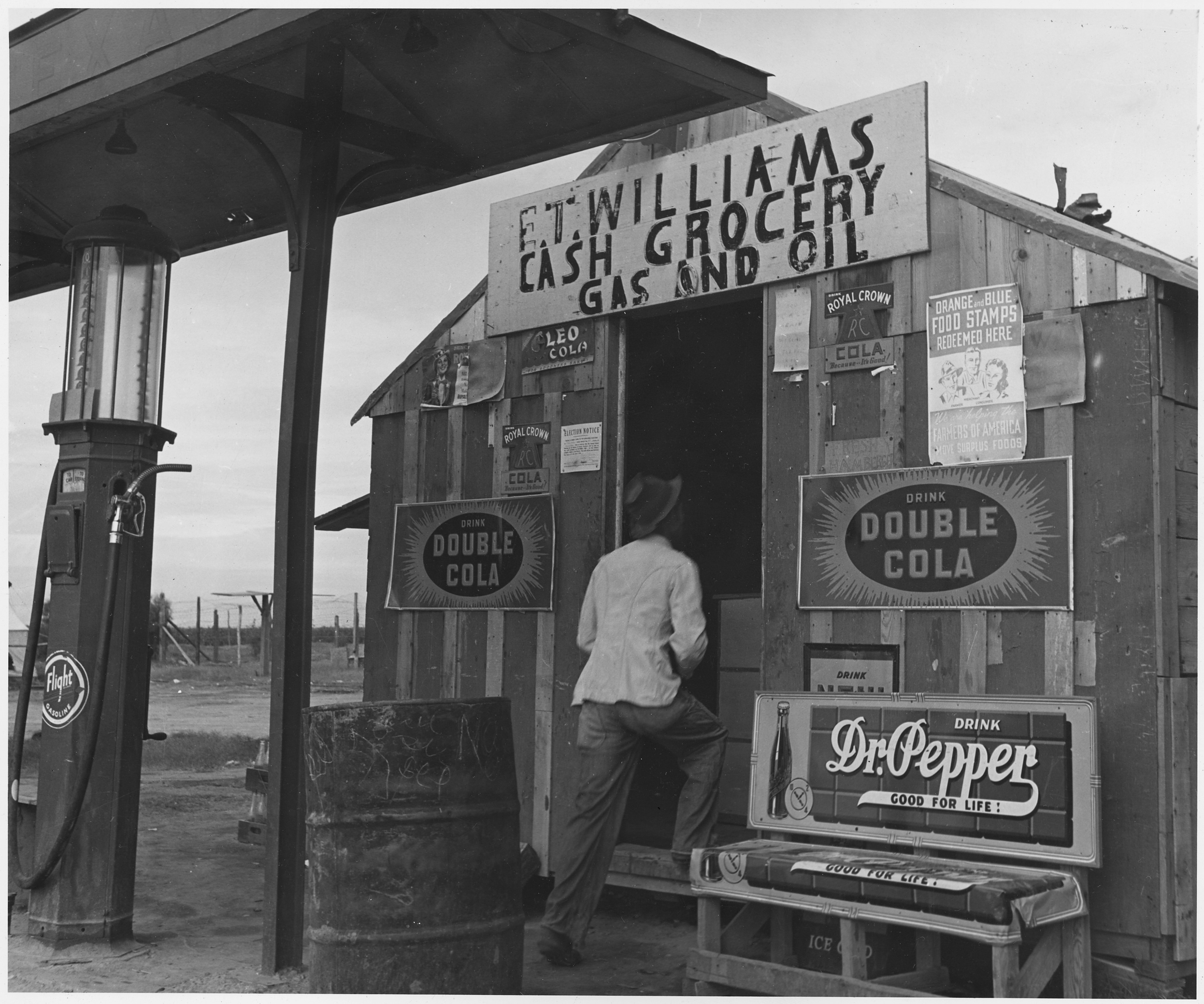 Scope and content: Full caption reads as follows: Near Buckeye, Maricopa County, Arizona. Store at grower's camp for migratory cotton pickers. Surplus food stamps accepted.